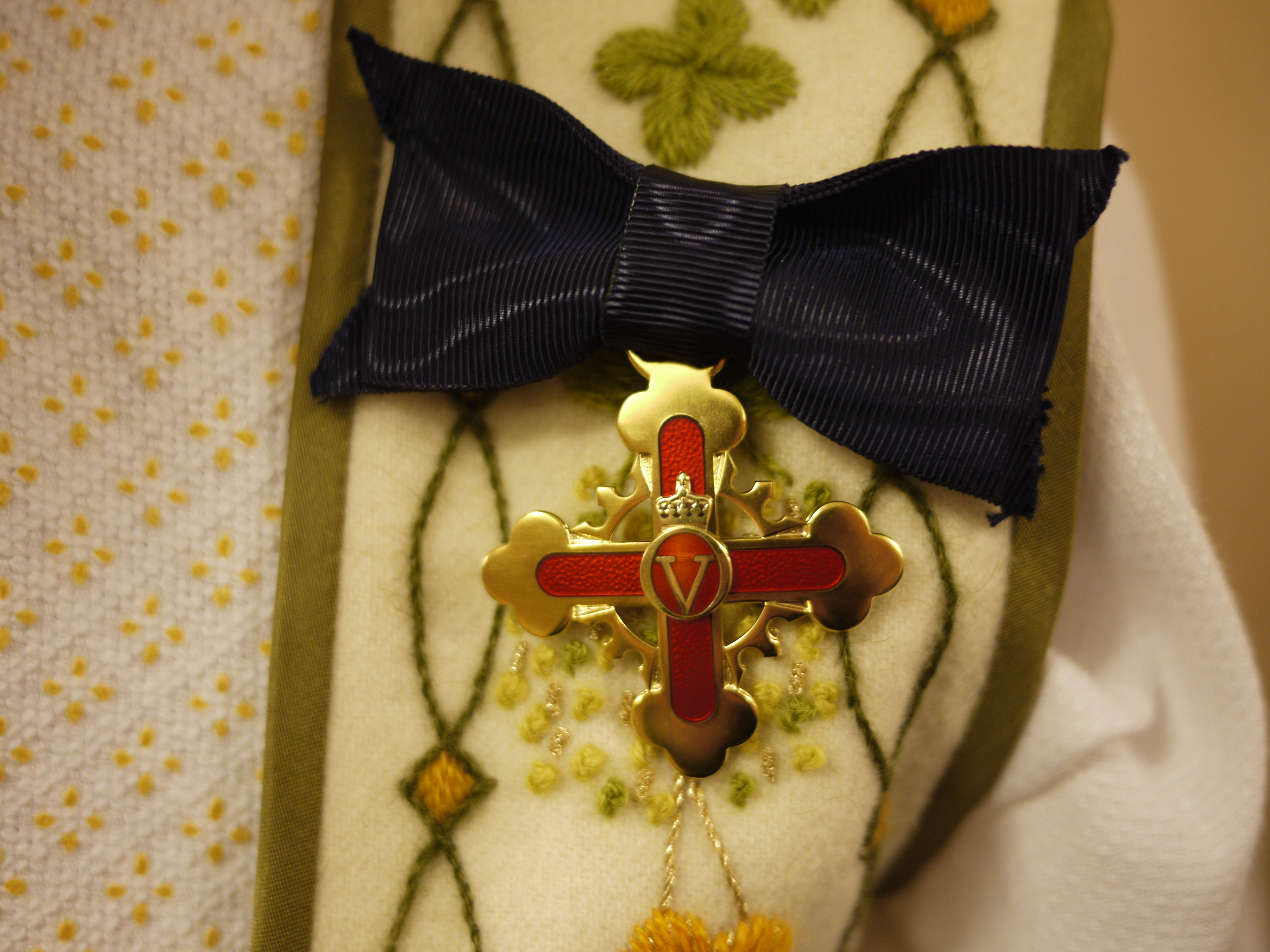 Royal Norwegian Order of Merit, Knight 1st Class, version for ladies